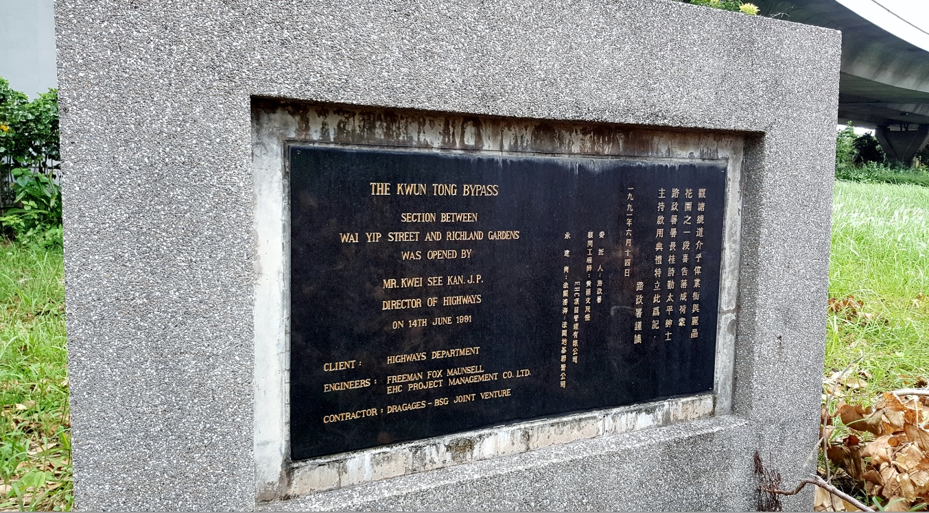 A plaque commemorates the opening of the Kwun Tong Bypass - Section between Wai Yip Street and Richland Gardens, as unveiled by Mr Kwei See-kan, I.S.O., J.P., Director of Highways, on 14 June 1991.